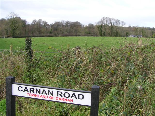 Carnan Road It is in the townland of Carnan